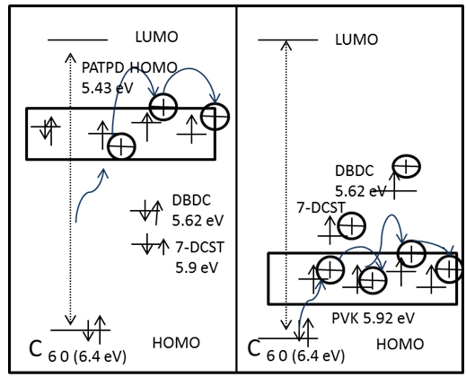 Electronic states of PATPO